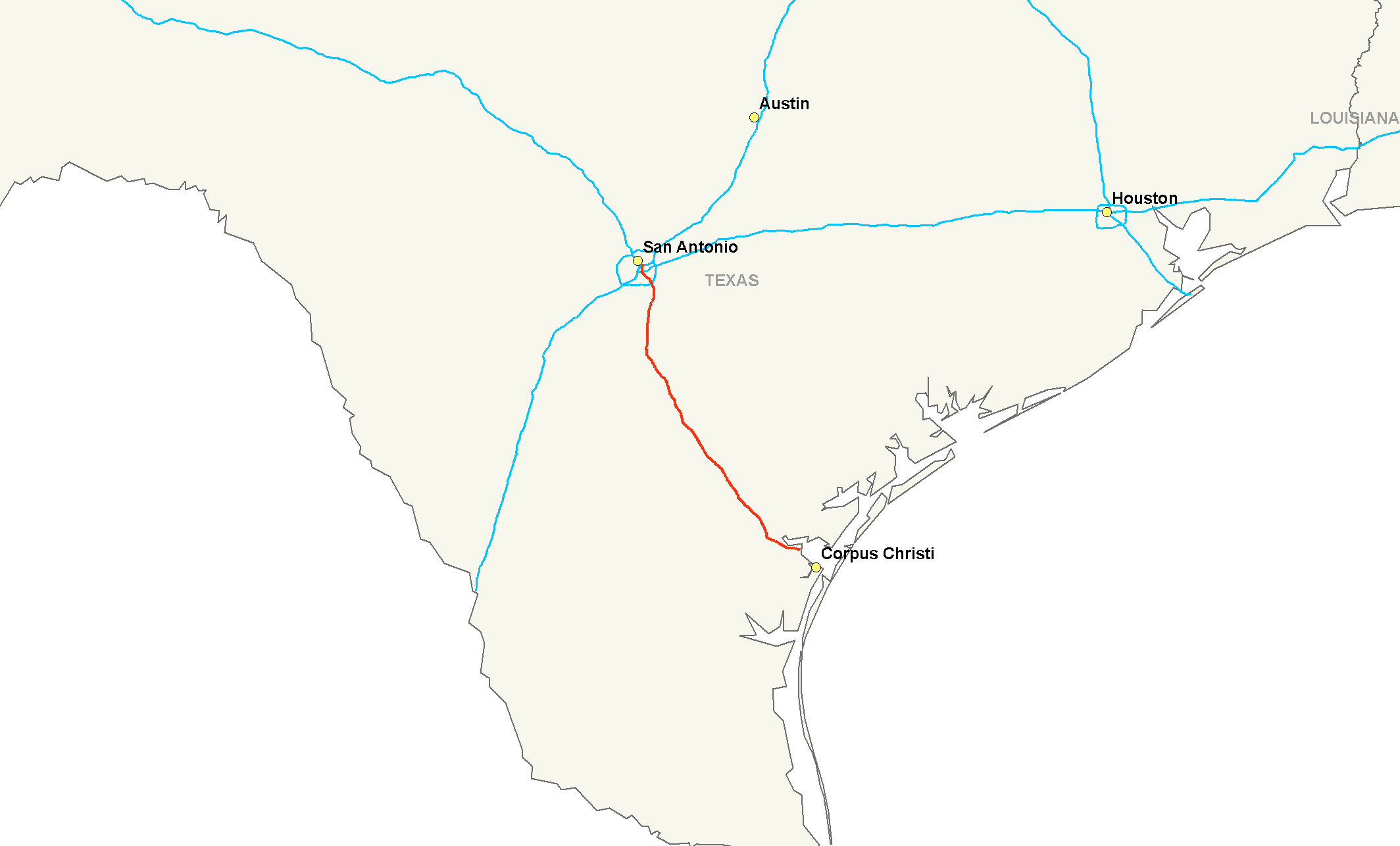 Map of Interstate 37